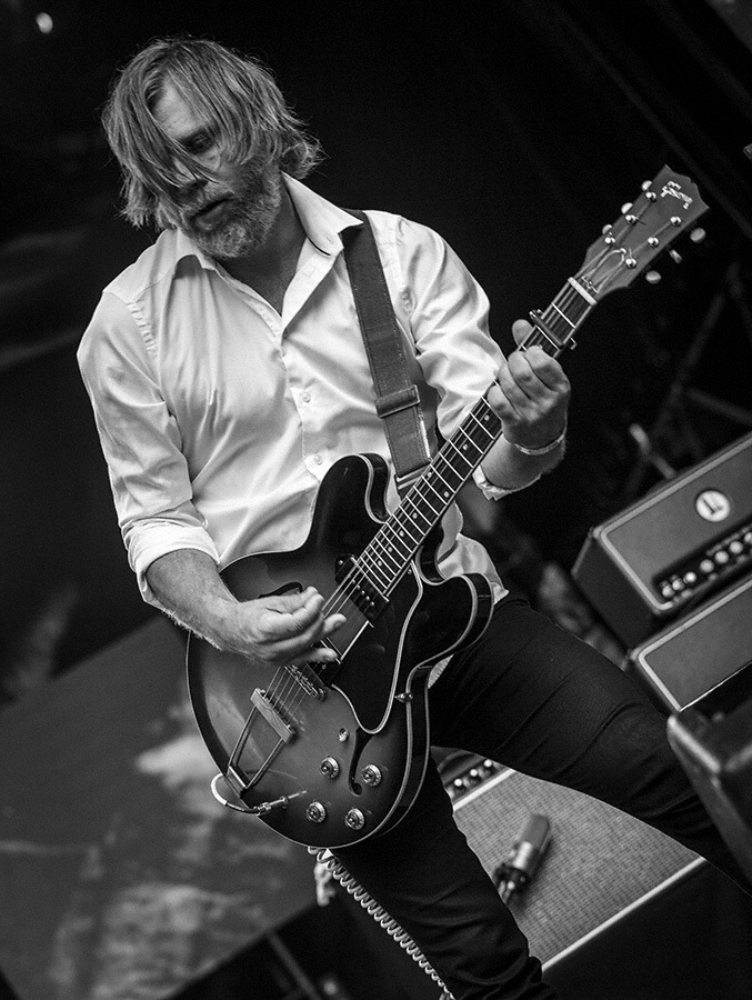 Cato Salsa performs at Piknik i Parken in Oslo on 25. June 2016. Lineup:Sivert Høyem (vocal)Christer Knutsen (guitar)Cato Salsa (guest guitar)Øystein Frantzvåg (bass)Børge Fjordheim (drums)